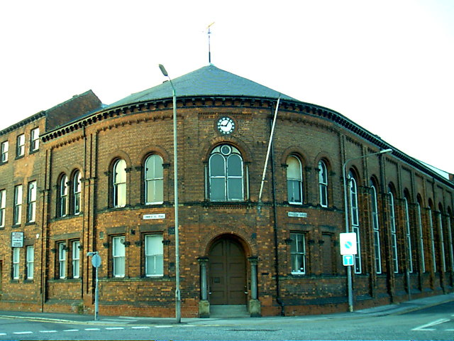 Wilson Line Head Office. The head office of Thomas Wilson, Sons & Co. Limited, Commercial Road, Hull. The offices were located next to the Railway Dock in Hull.